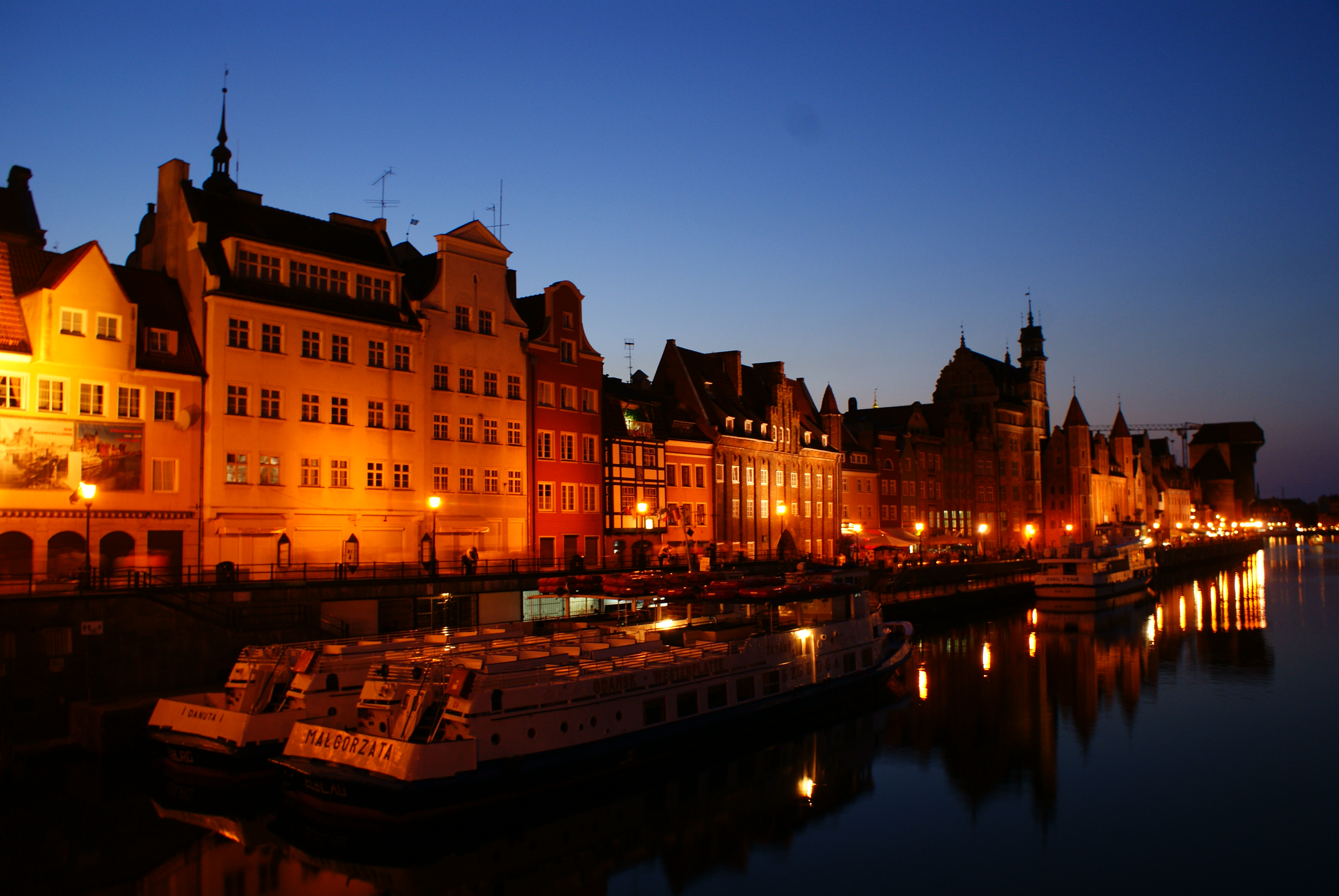 Port scenery at Gdansk, Poland.